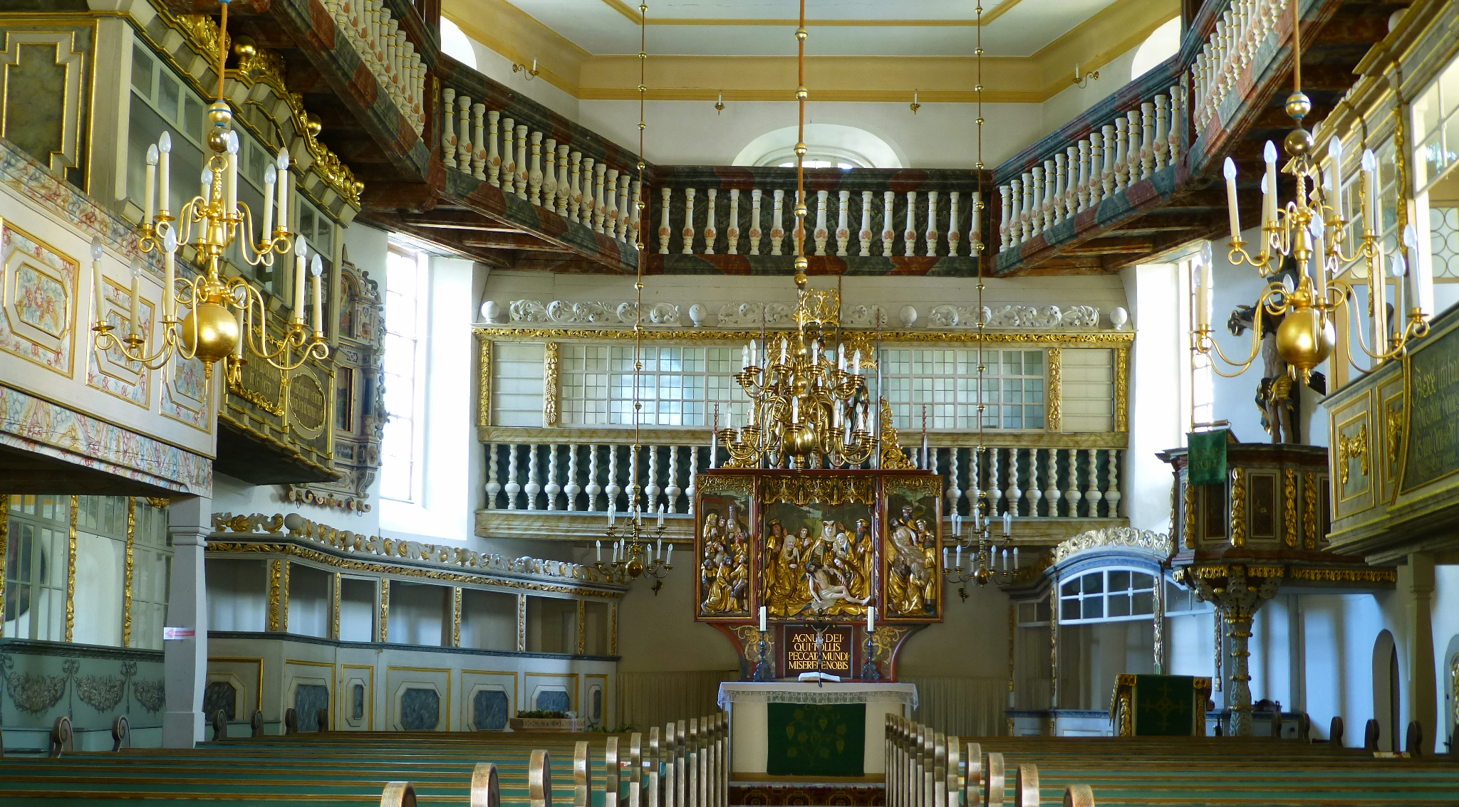 Interior of the St John Church, Scheibenberg, Erzgebirg District, Saxony.